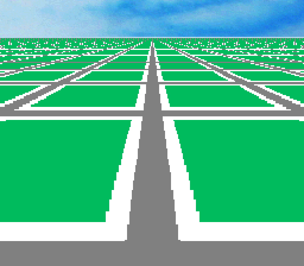 SNES Mode 7 Demo